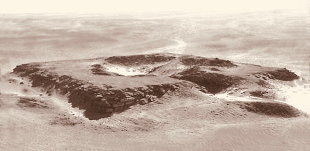 The unfinished Pyramid of Neferefre, seen from the Pyramid of Neferirkare Kakai